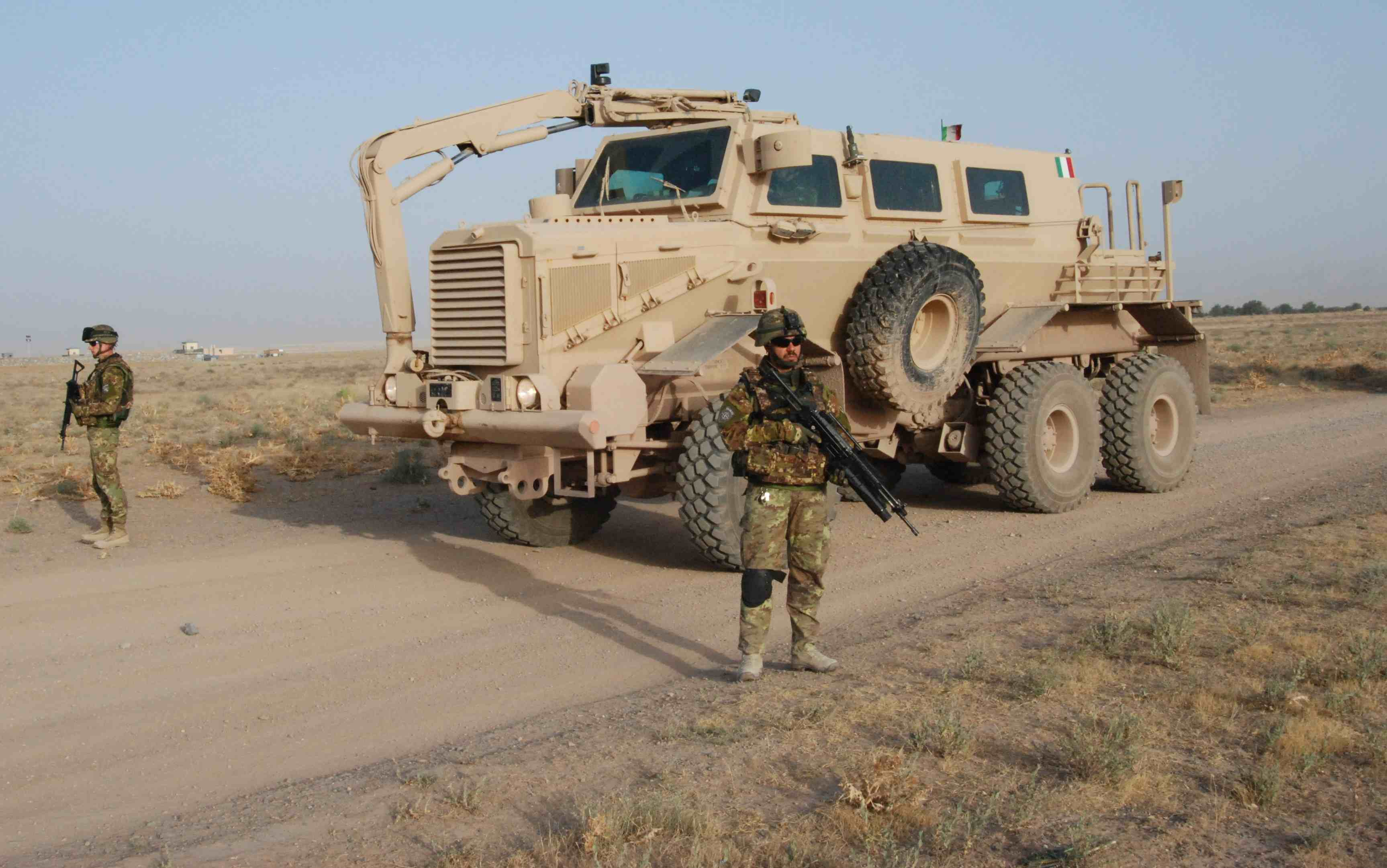 Herat, Afghanistan (July 19) – This morning, a unit specialized in explosive disposal belonging to Task Force Centre was warned by the Afghan police about a possible Improvised Explosive Device (IED) found under a Ring Road´s bridge, 6 km east from Shindand base. The unit arrived on the spot reinforced by Pinerolo 3rd Regiment, that have cordoned the area. The container was in the indicated position and was confirmed as an IED. After assessing the difficulties to examinate and disable the bomb, specialists have opted for a distant blast, using elite shooters who arrived from the base. The explosion did not cause any damage to persons or properties, and did not harm the bridge structure whatsoever.